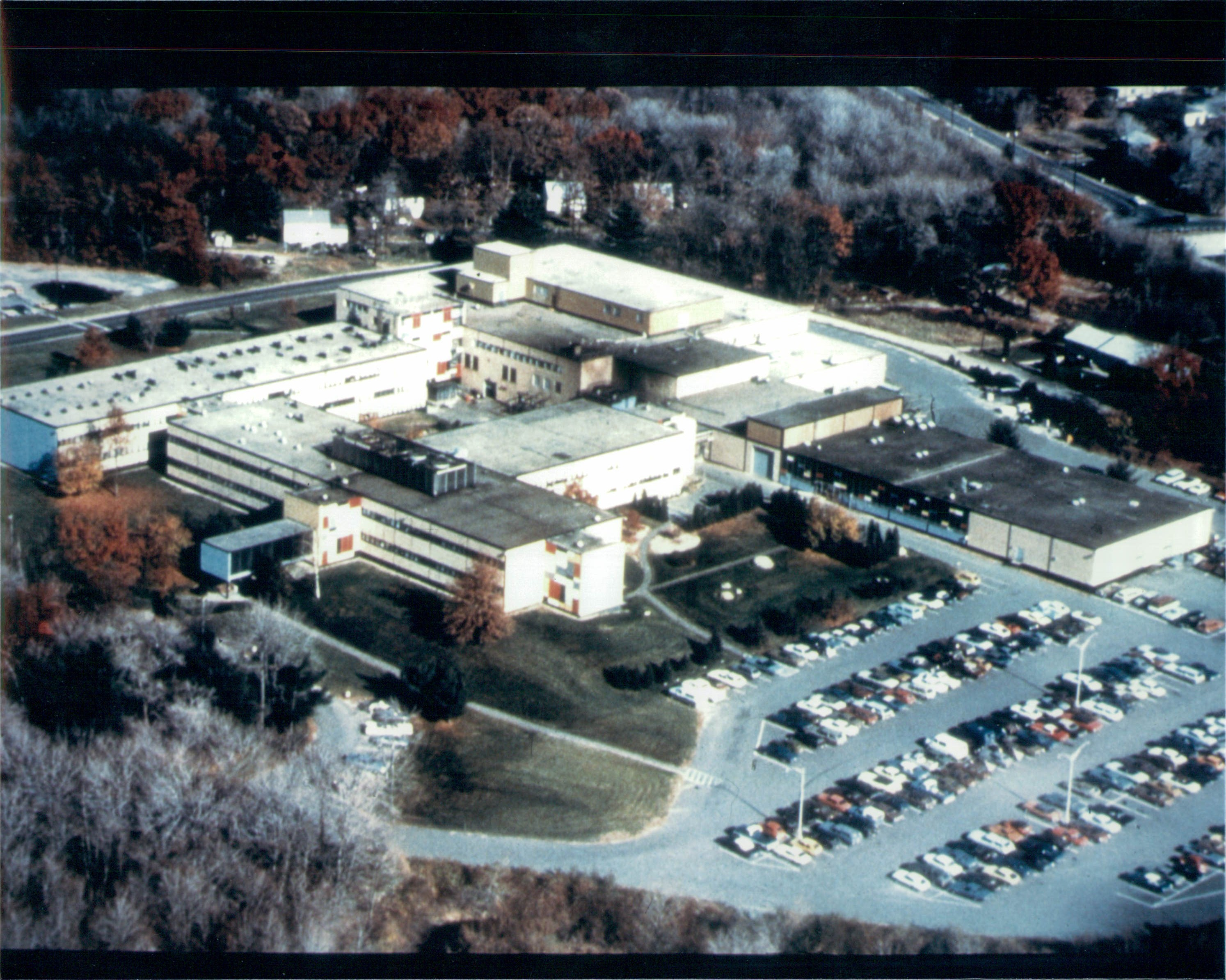 ITEK Corporation head quarters in Lexington, MA. ITEK built HYAC balloon reconnaissance cameras, and C triple prime, Mural, J-1 and J-3 cameras for the CORONA reconnaissance satellites of the US